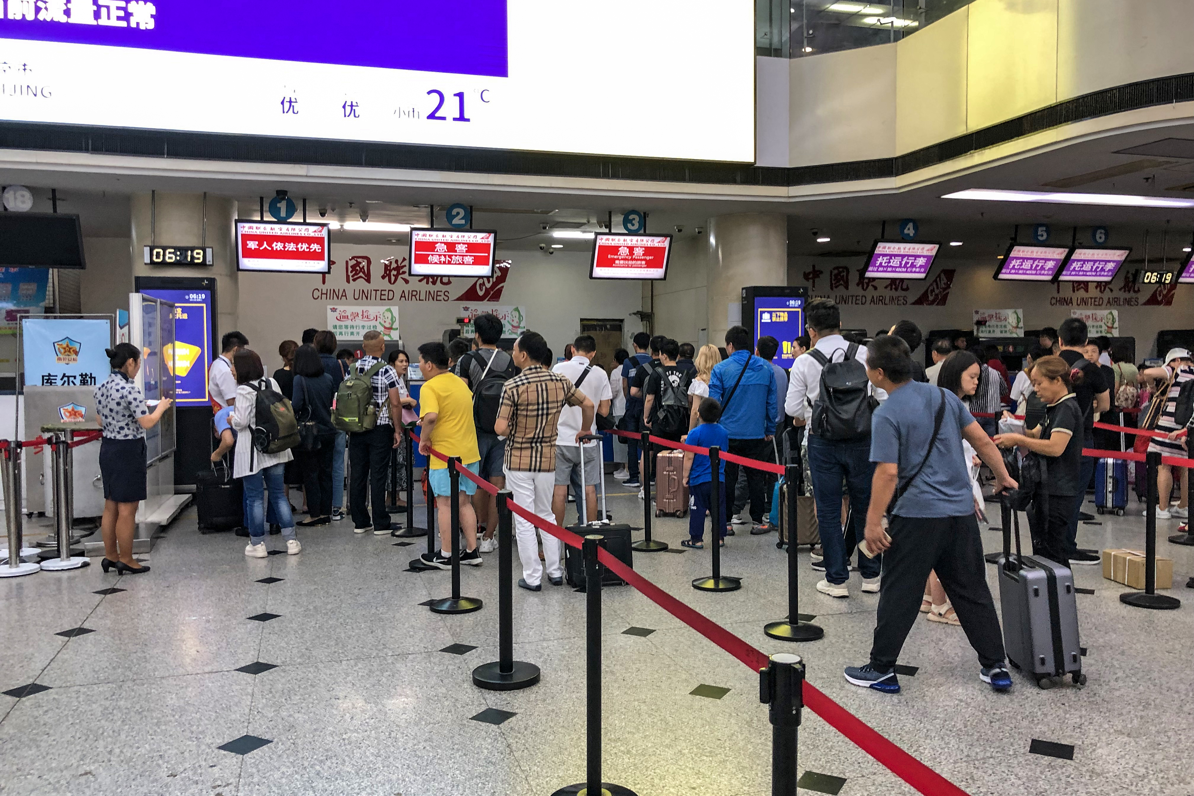 Extremely crowded in the morning - that's CUA.